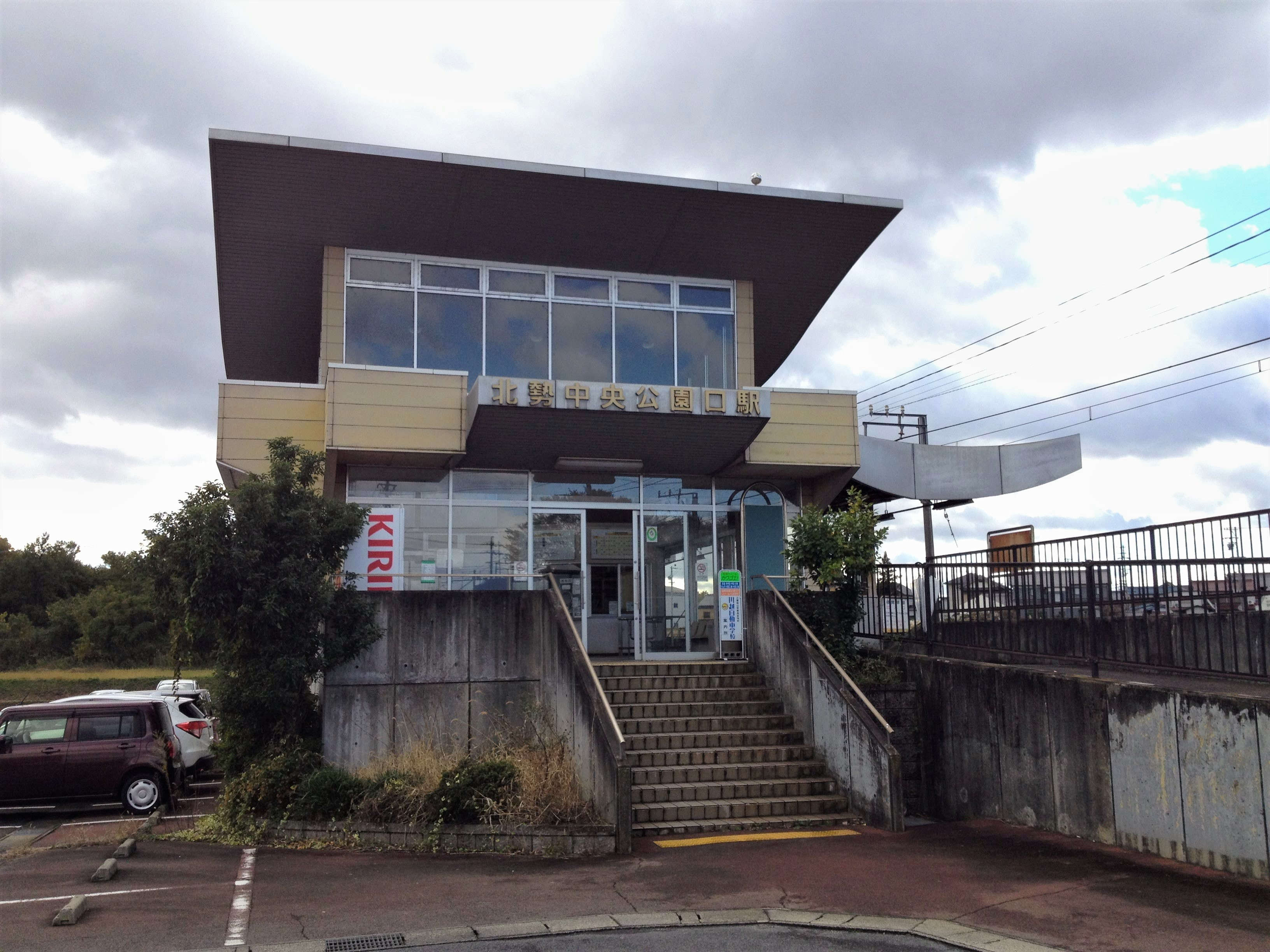 Hokusei Chuo Koenguchi Station in Yokkaichi, Mie Prefecture, Japan